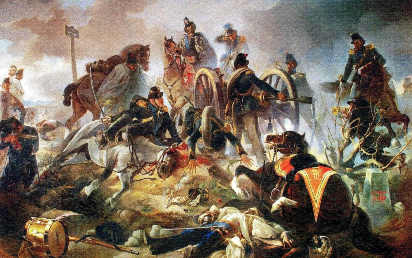 Scene of the Battle of Novara (1849): Robilant injured his left hand while giving orders to his artillery.